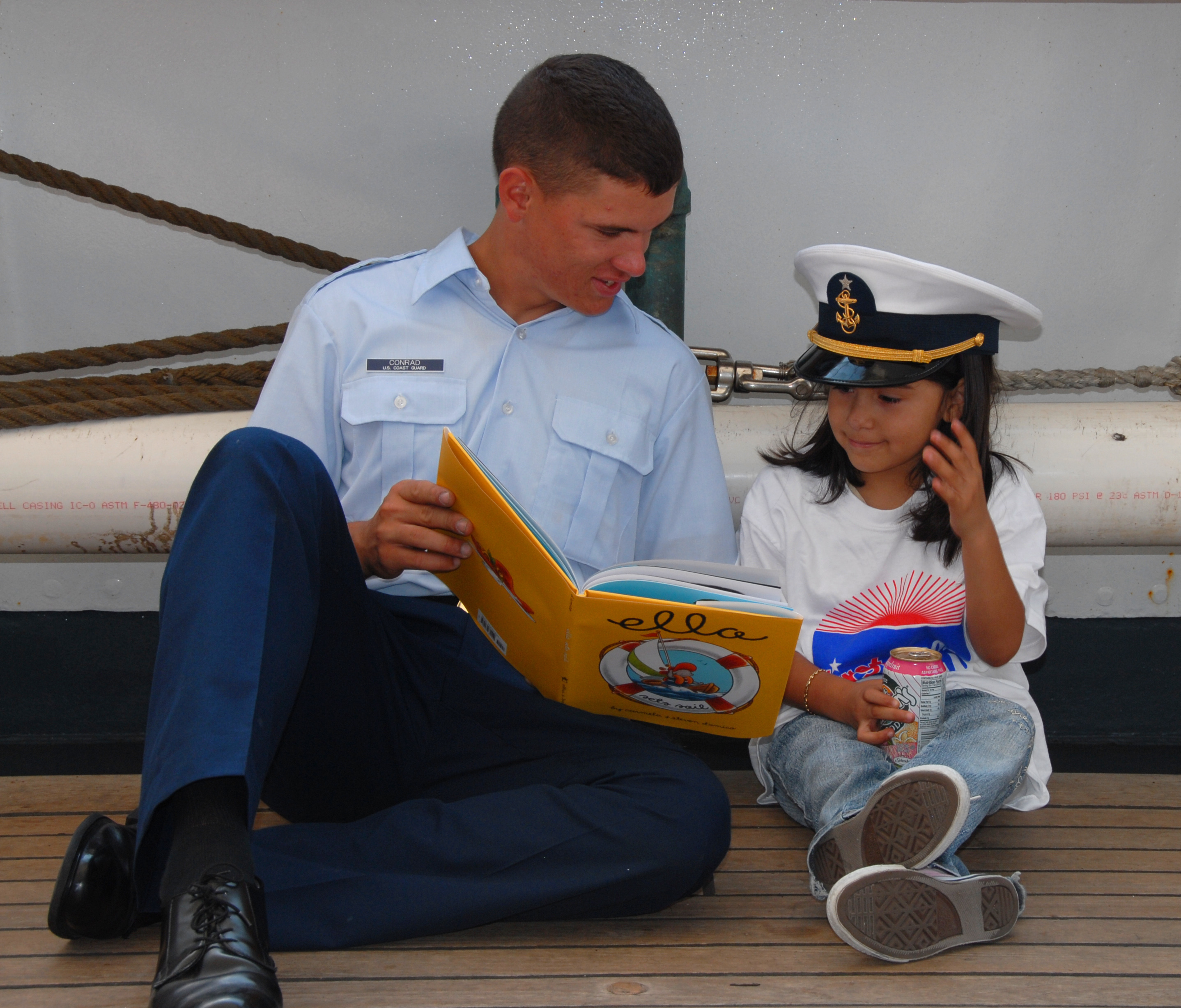 Cadet Jacob Conrad, of the U.S. Coast Guard Academy, New London, Conn., reads a story to a young girl who participated in the Summer Reading Handshake Tour with First Book held onboard the Coast Guard Cutter Eagle while moored in San Pedro, Calif., Saturday Aug. 16, 2008. First Book, a nonprofit organization, is the signature charity of the U.S. Coast Guard. Visitors who come to the ship and shake hands with Coastguardsmen generate a brand new book for a child in need. (U.S. Coast Guard Photo by Petty Officer 3rd Class Jetta H. Disco) Unit: U.S. Coast Guard District 1 DVIDS Tags: CGVI; DVIDS Bulk Import